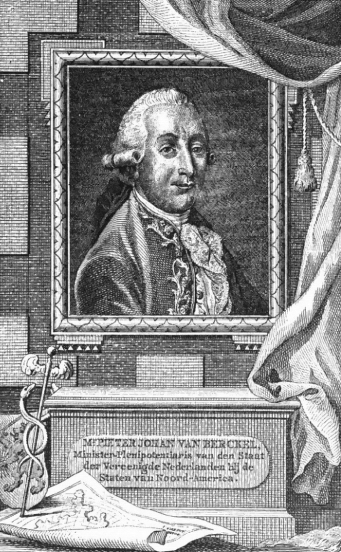 Wall Street in History (1883 book) The number shown is the book's page number and the text shown is the image caption. Click on the link to get to the full book